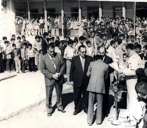 AMIRKOLA 70ies BABOL - School Ceremony with Head of City Council, Mayor and a representative of Persian Scouts (Iran Scout Organization). center foreground: M. I. Khalili Amiri (H. City Council)